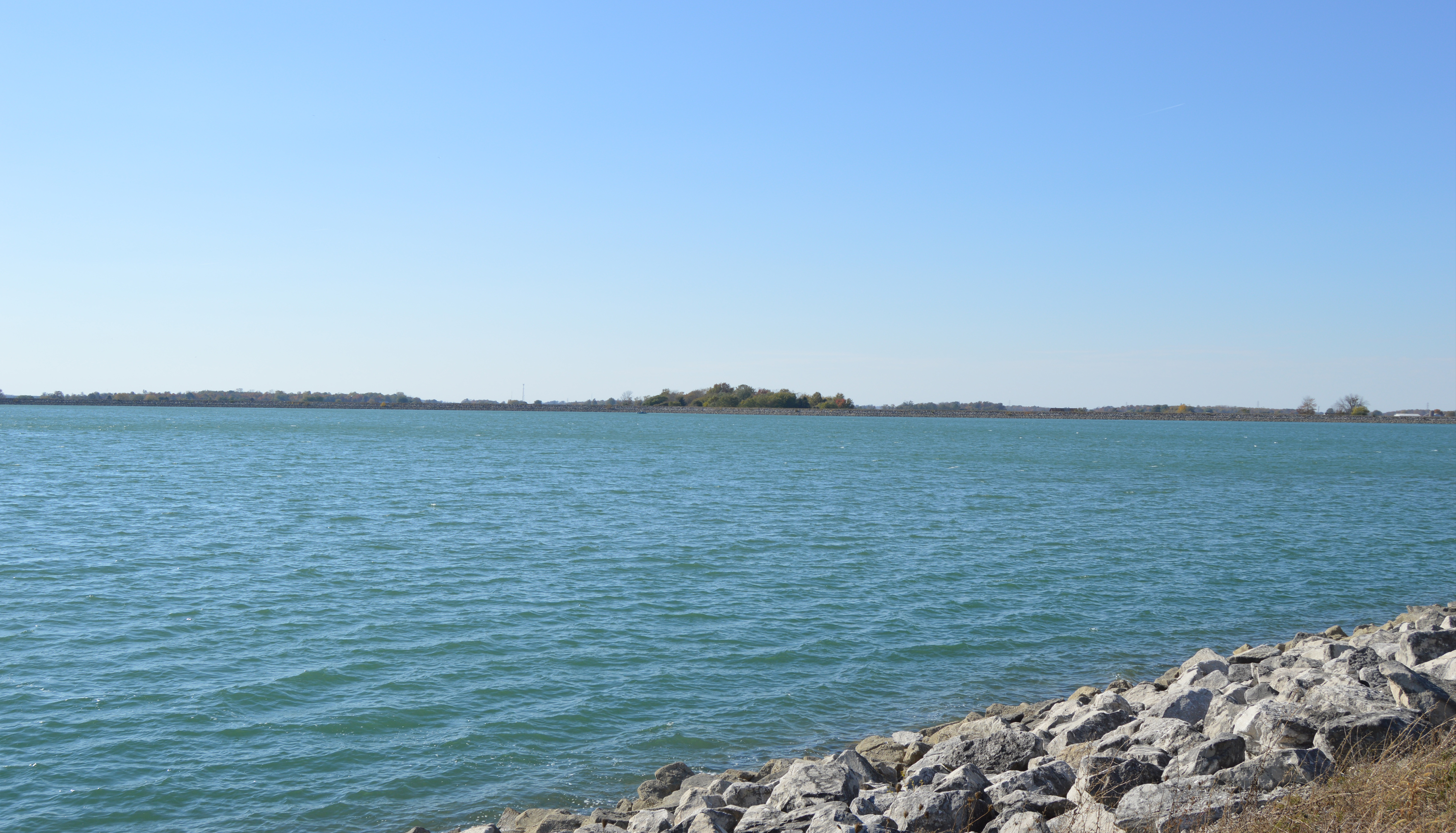 Looking northwest over the Bucyrus Reservoir (seen from near the parking area) in Liberty Township, Crawford County, Ohio, United States.